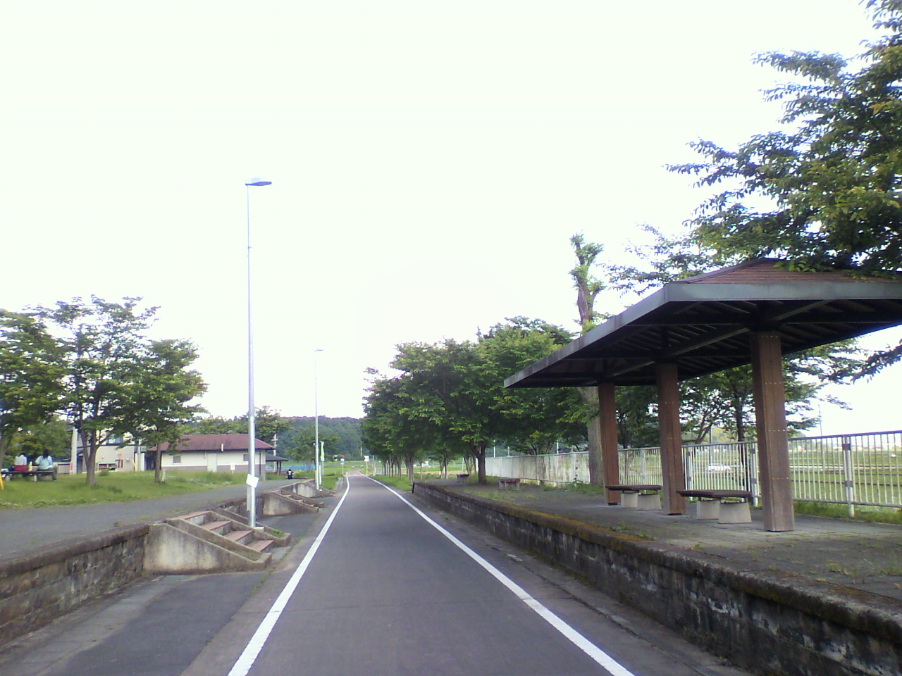 This is the site of the Tsukuba Railway Hitachi-fujisawa station in Tsuchiura, Japan.